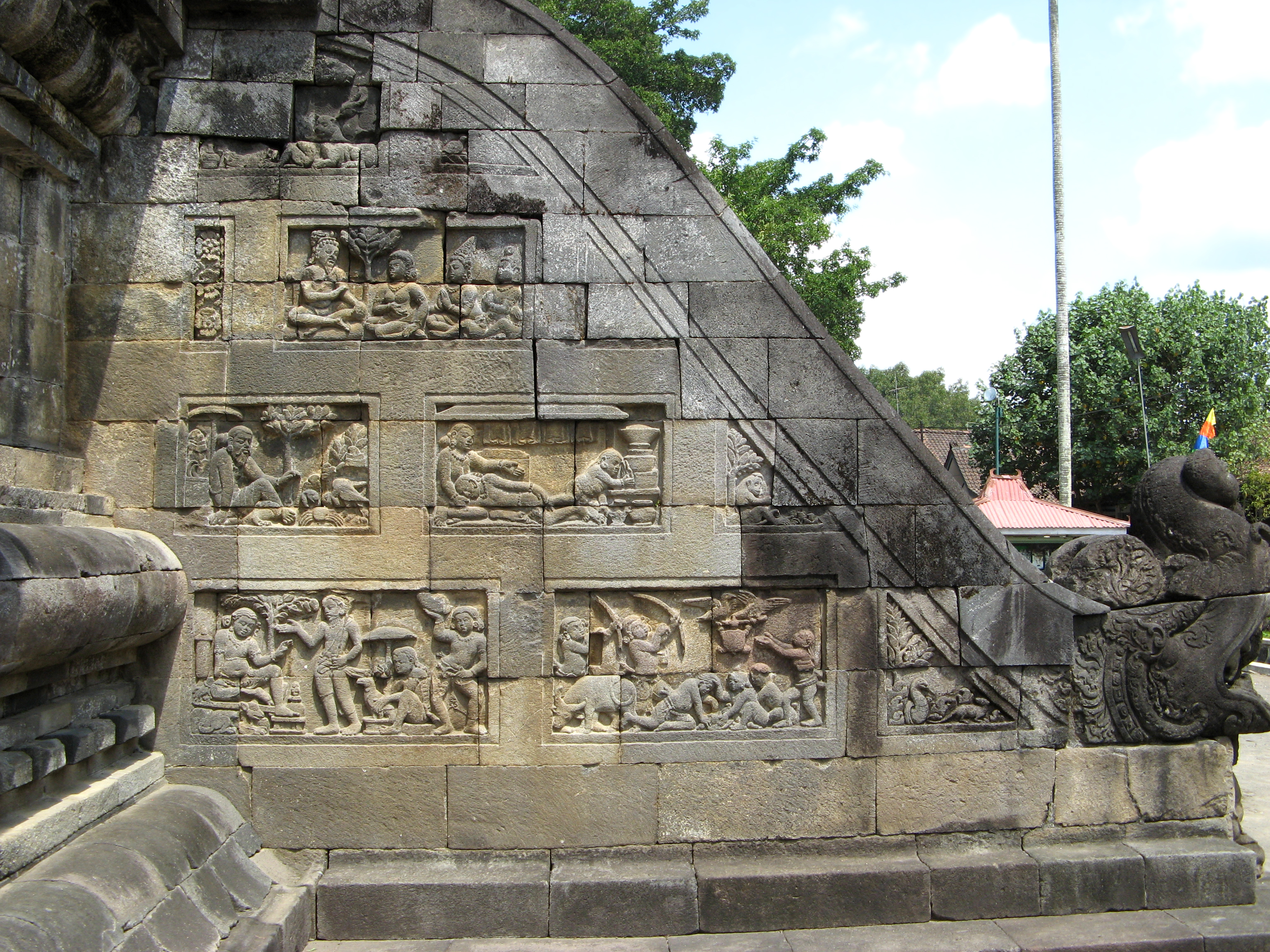 The outer walls of the stairway exhibit fine reliefs of some Tantri Tales. These are moralizing stories about animals, the charming East Asian equivalent of Aesop's Fables in the West. An overview of the northeast wall of the stairway is seen here.